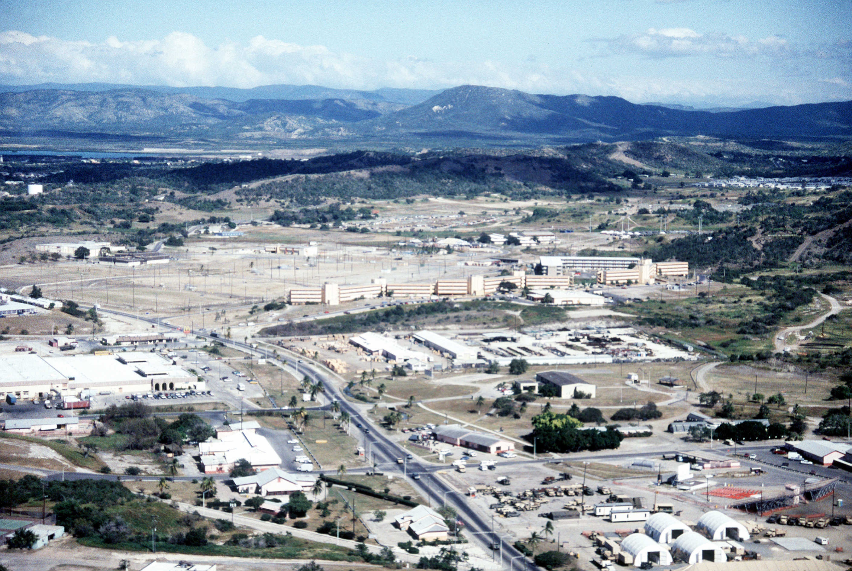 An aerial view of Naval Base Guantanamo Bay's windward side, looking northeast, showing the Navy Exchange and the Bachelor Enlisted Quarters (BEQ) area.